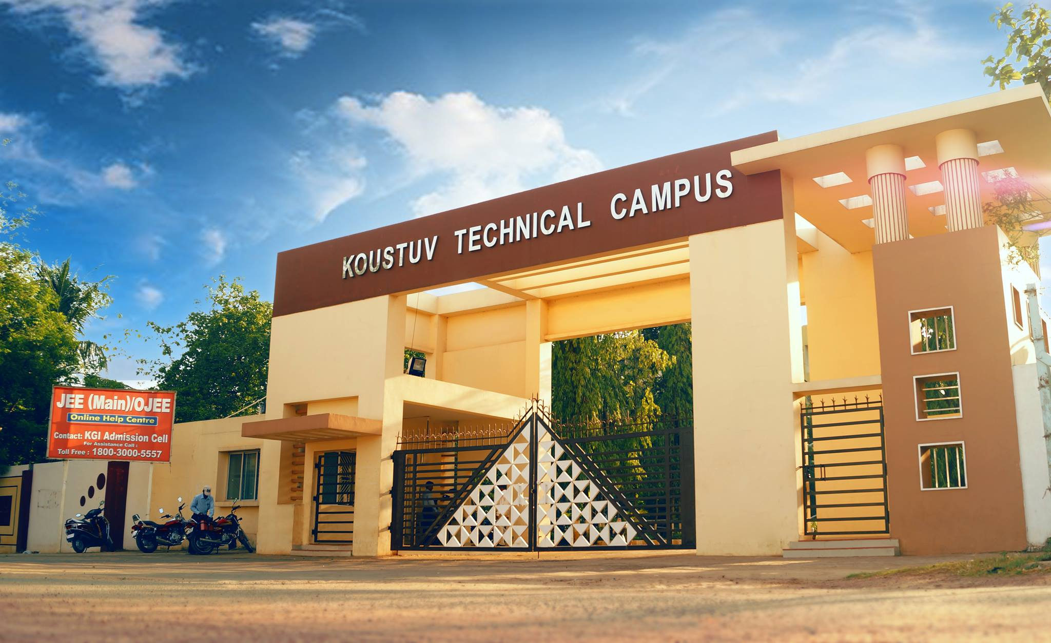 ceb main gate